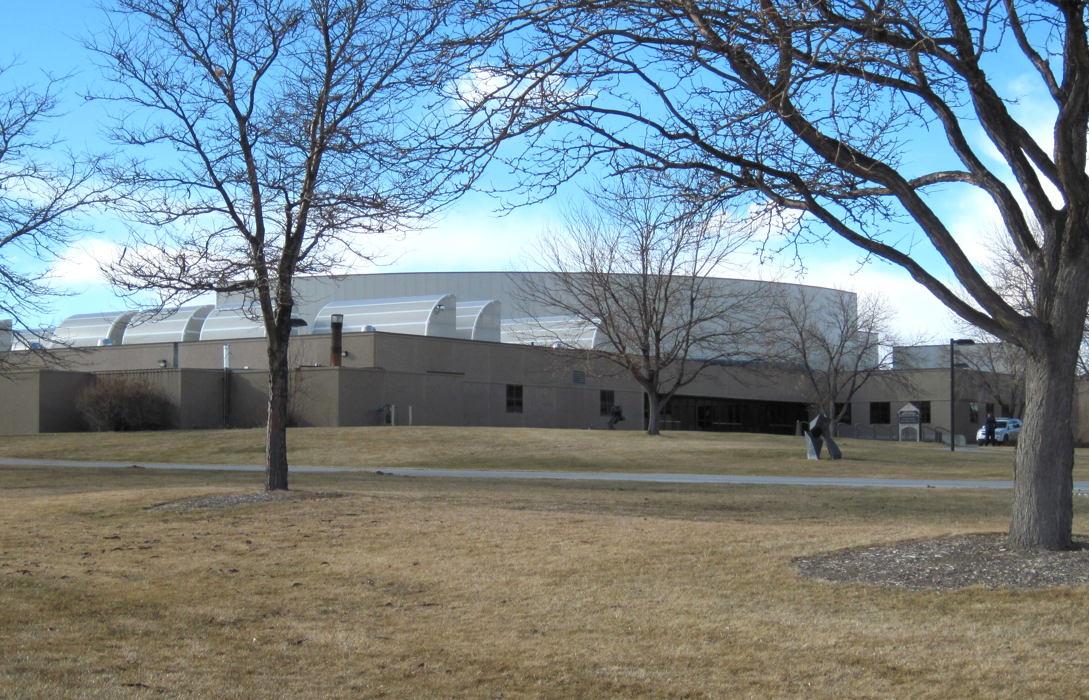 The Robert A. Peck Arts Center at Central Wyoming College in Riverton, Wyoming. The building was completed in 1983; its namesake was a local businessman who was instrumental in the founding of the institution. The Arts Center houses the college's music, theatre, and fine arts programs.